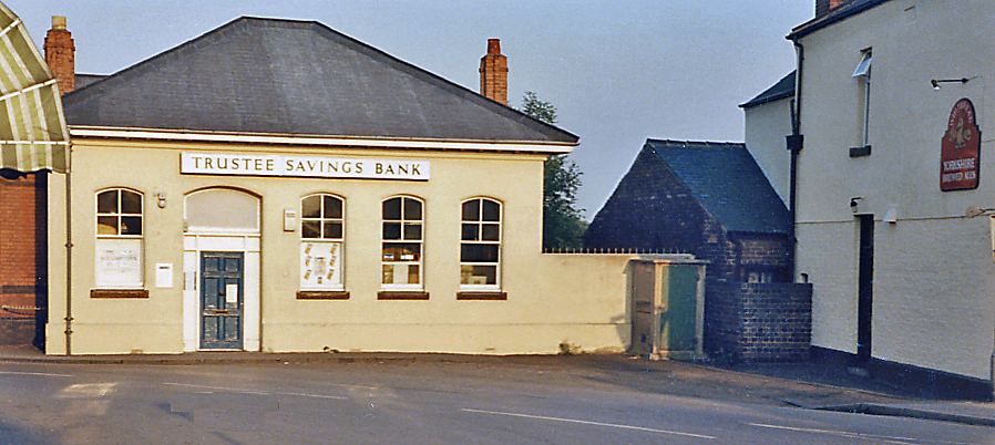 Former Clowne South station View NE, towards Beighton and Sheffield (Victoria) (left), Langwith Junction, Shirebrook etc. right: ex-GC (Lancashire, Derbyshire & East Coast section), Beighton - Langwith branch. The line lost its passenger service (Mansfield LMS - Shirebrook North - Treeton - Sheffield LMS) from 10/9/39 and this was the booking-office. The station, which was very close to the ex-Midland station, was named Clown (no 'e') & Barlbrough, but on 18/6/51 it was renamed 'Clowne South' and the line remained open for excursions and diverted GC Main line trains as well as freight until 4/7/60.